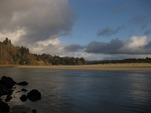 Salmon River at confluence with Pacific Ocean, Lincoln County, Oregon, USA